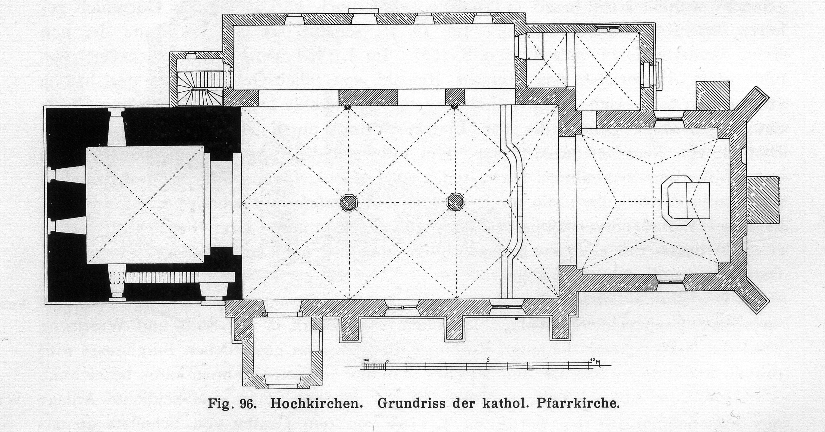 Ground plan of the medieval church St. Viktor, Hochkirchen, a quarter of Nörvenich, Germany